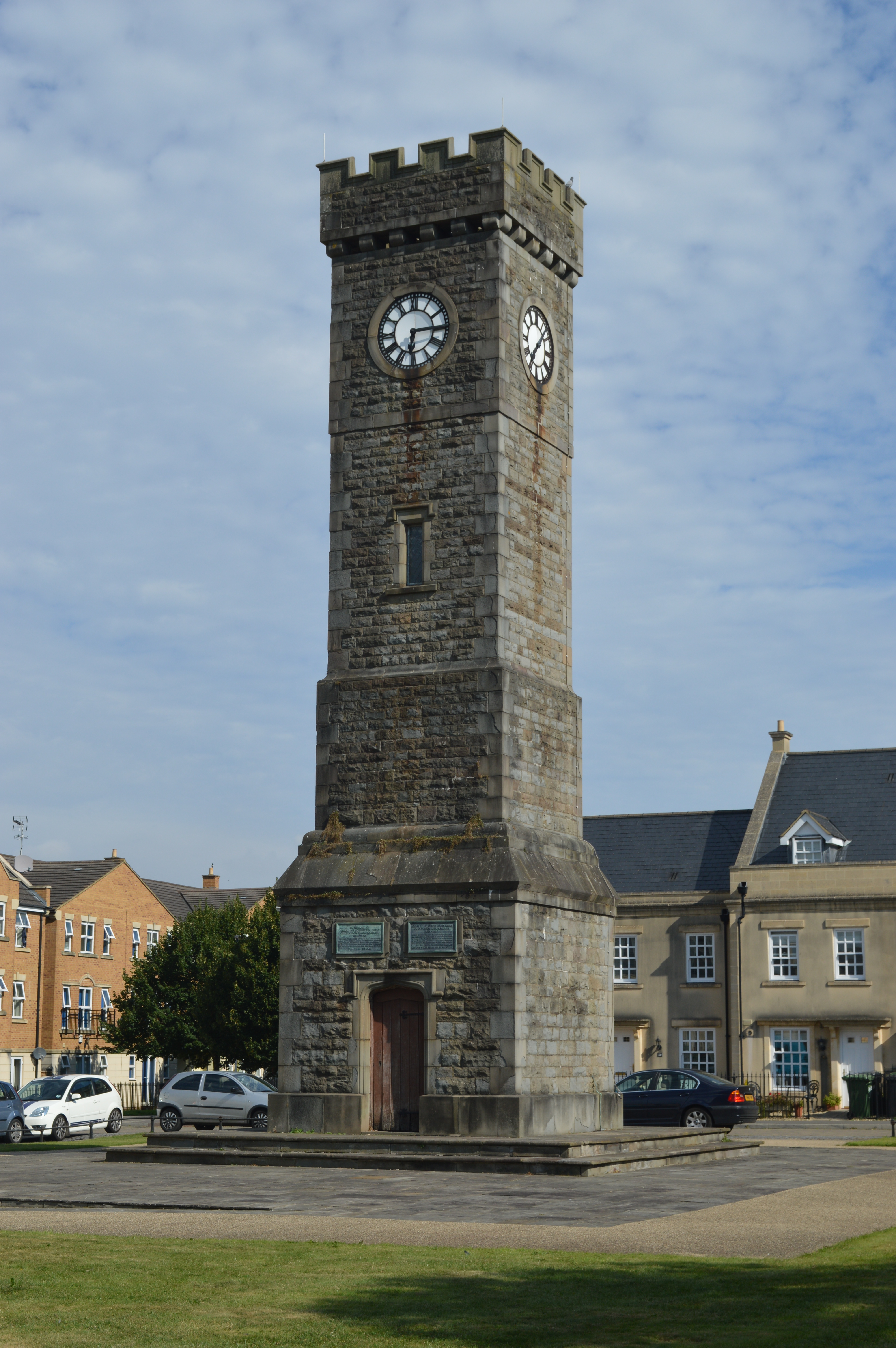 Clock tower in Stoke Park. This clock tower is formerly part of Stoke Park Colony, then Stoke Park Hospital, to the northeast of the Dower House. Each of the four faces has stopped at a different time. The clock tower was erected (ca. 1930s) to the memory of the Rev Harold Nelson Burden who founded the Stoke Park Colony.